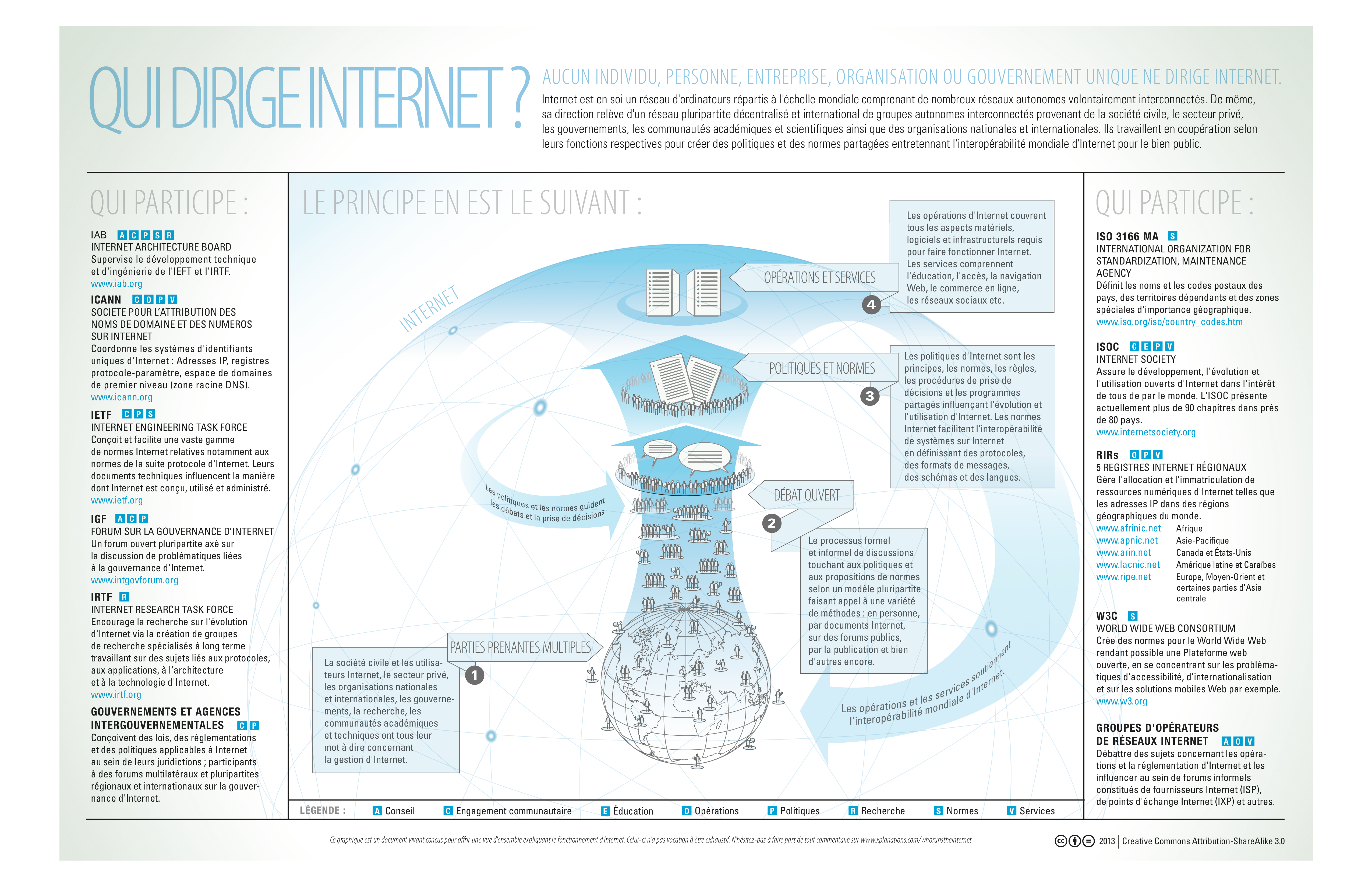 Who Runs the Internet? This graphic is a living document, designed to provide a high level view of how the Internet is run.